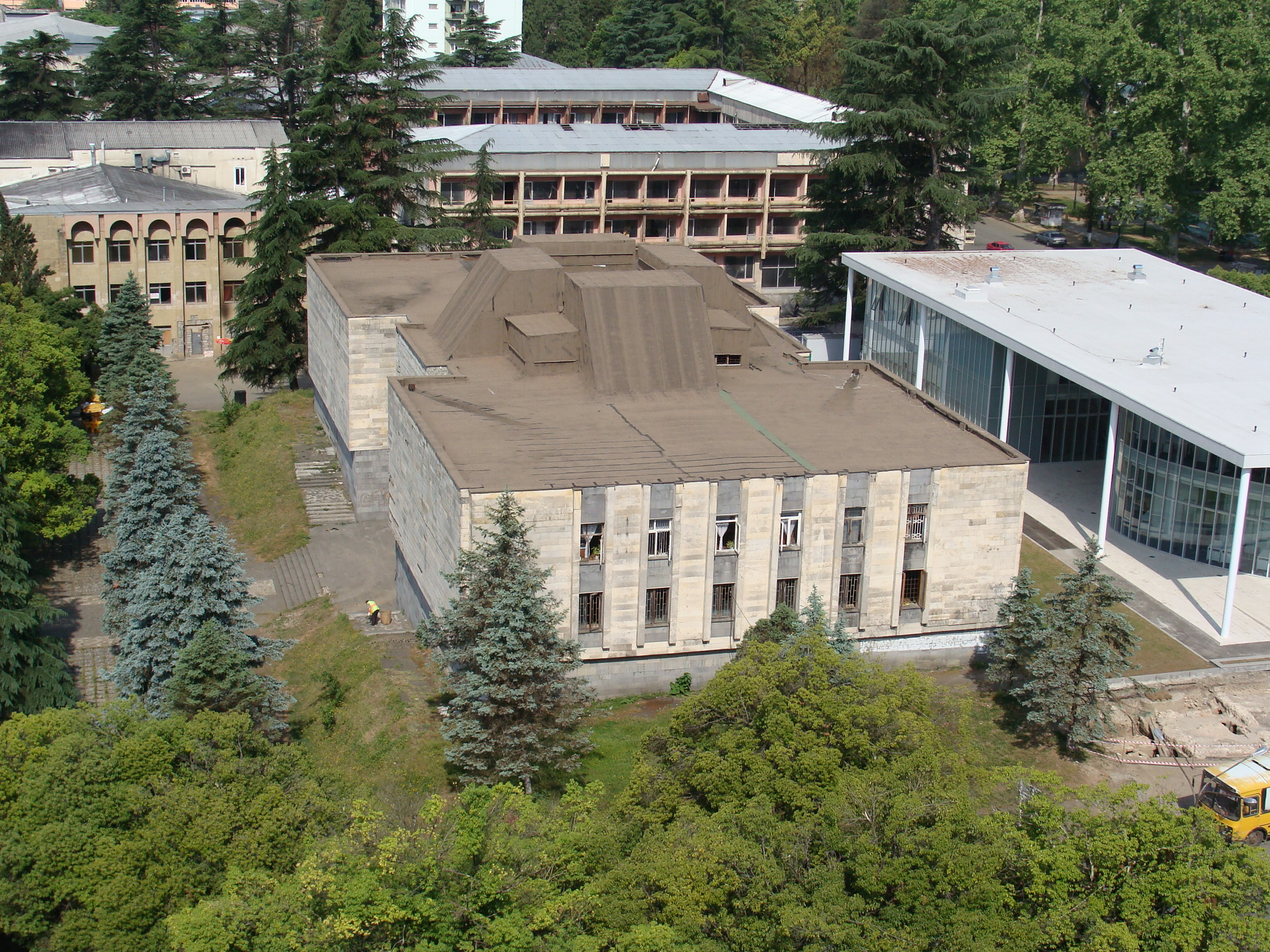 Ozurgeti History Museum (May 2012)